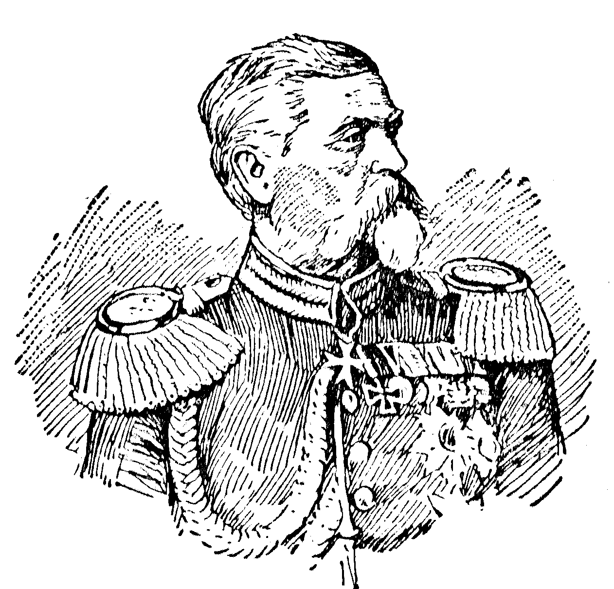 Ludwig Samson Arthur von und zu der Tann-Rathsamhausen. Portrait from the book "Der Krieg zwischen Frankreich und Deutschland in den Jahren 1870/71. Unter Zugrundelegung des Großen Generalstabswerkes bearbeitet von J. Scheibert Major z. D. Mit 44 Karten und Schlachtenplänen und 22 Porträts. Berlin 1892. Verlag von W. Pauli's Nachf. (H. Jerosch). W. 57, Göben-Straße 6."